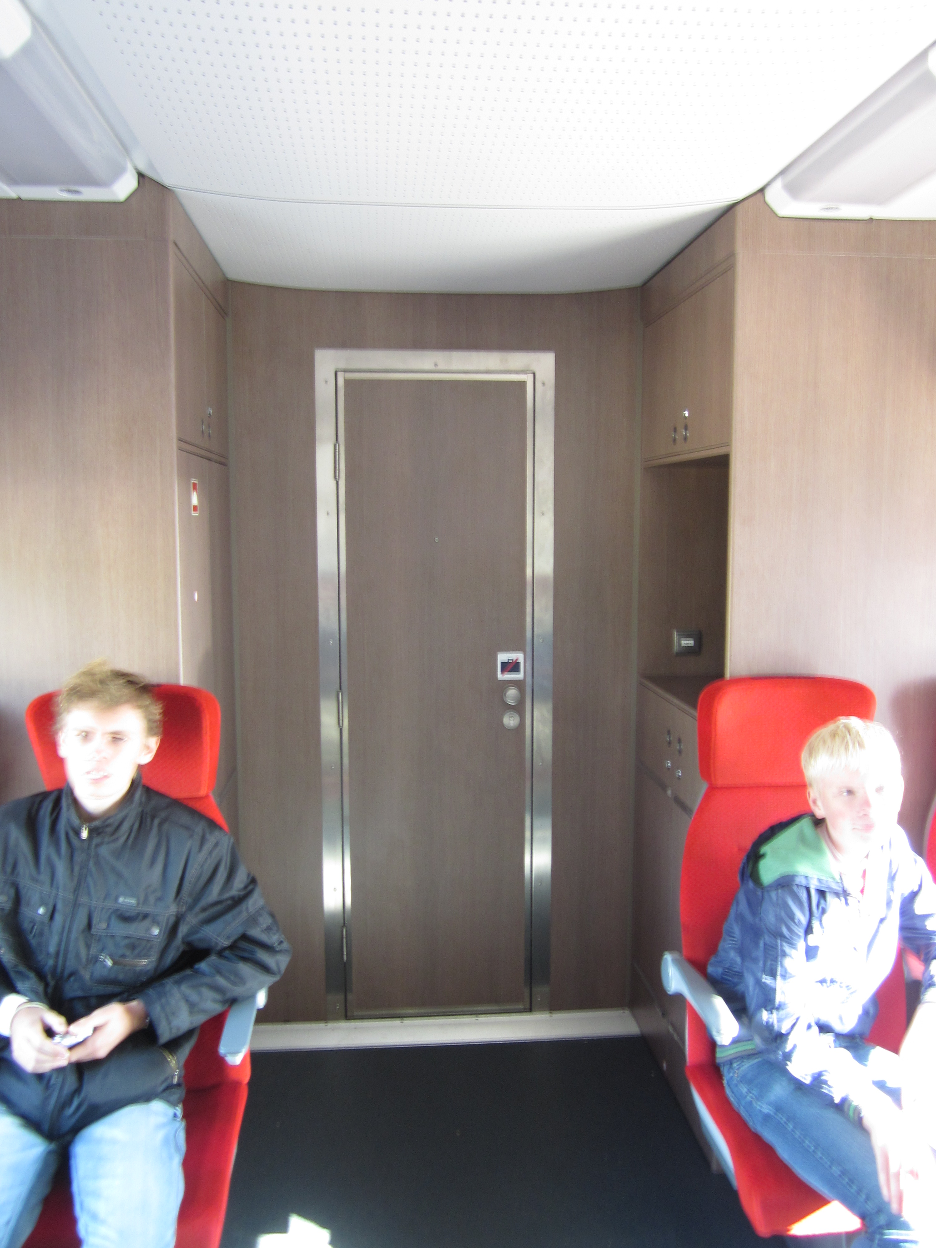 A door to driver's cab nside the elecric multiple unit ES1-005.